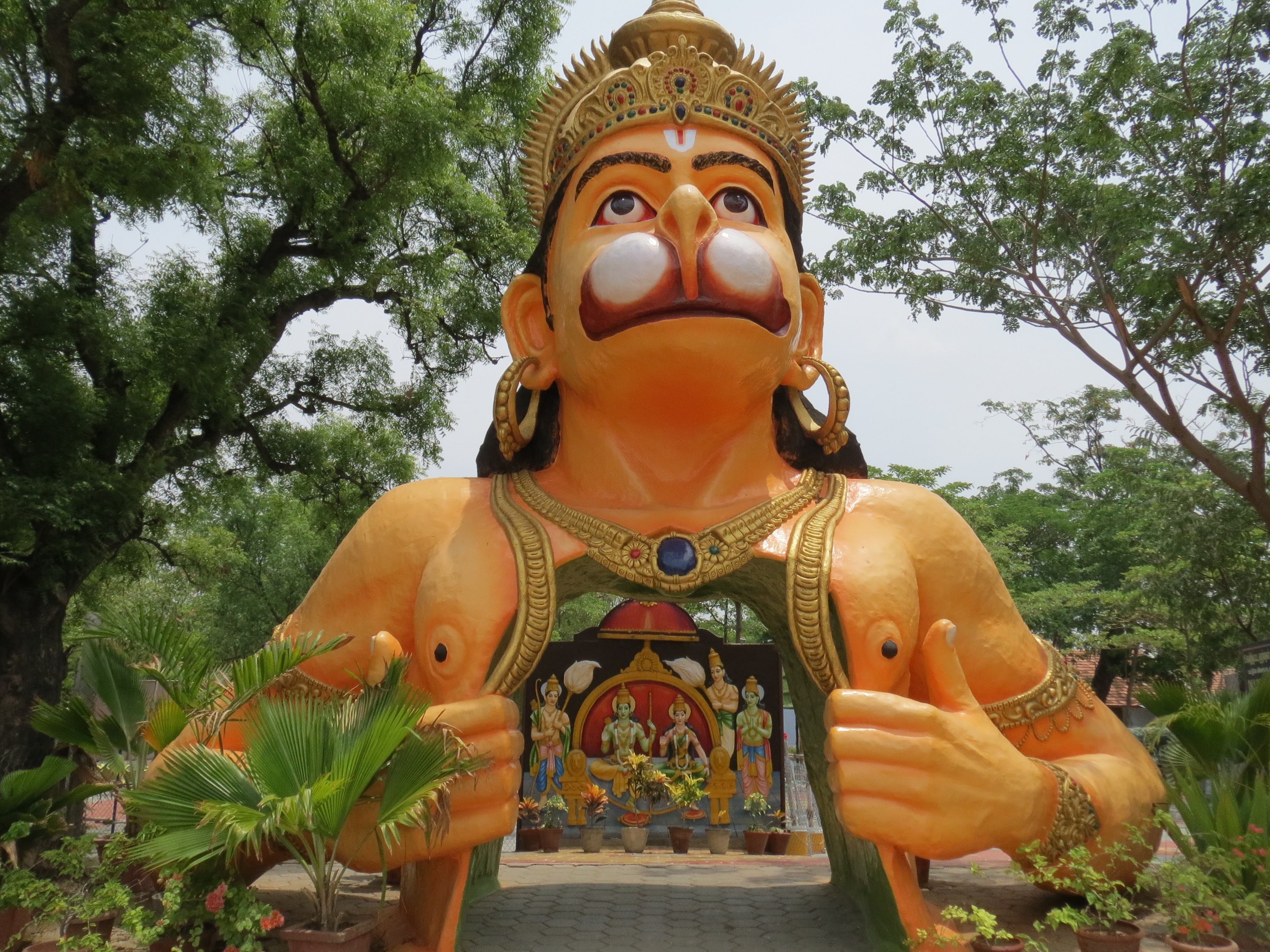 Ramayana park entrance is constructed as Anjaneya opening his heart and showing the image of Rama there. This theme park for children is situated in coimbatore, Tamil nadu.